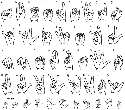 Signuno alphabet